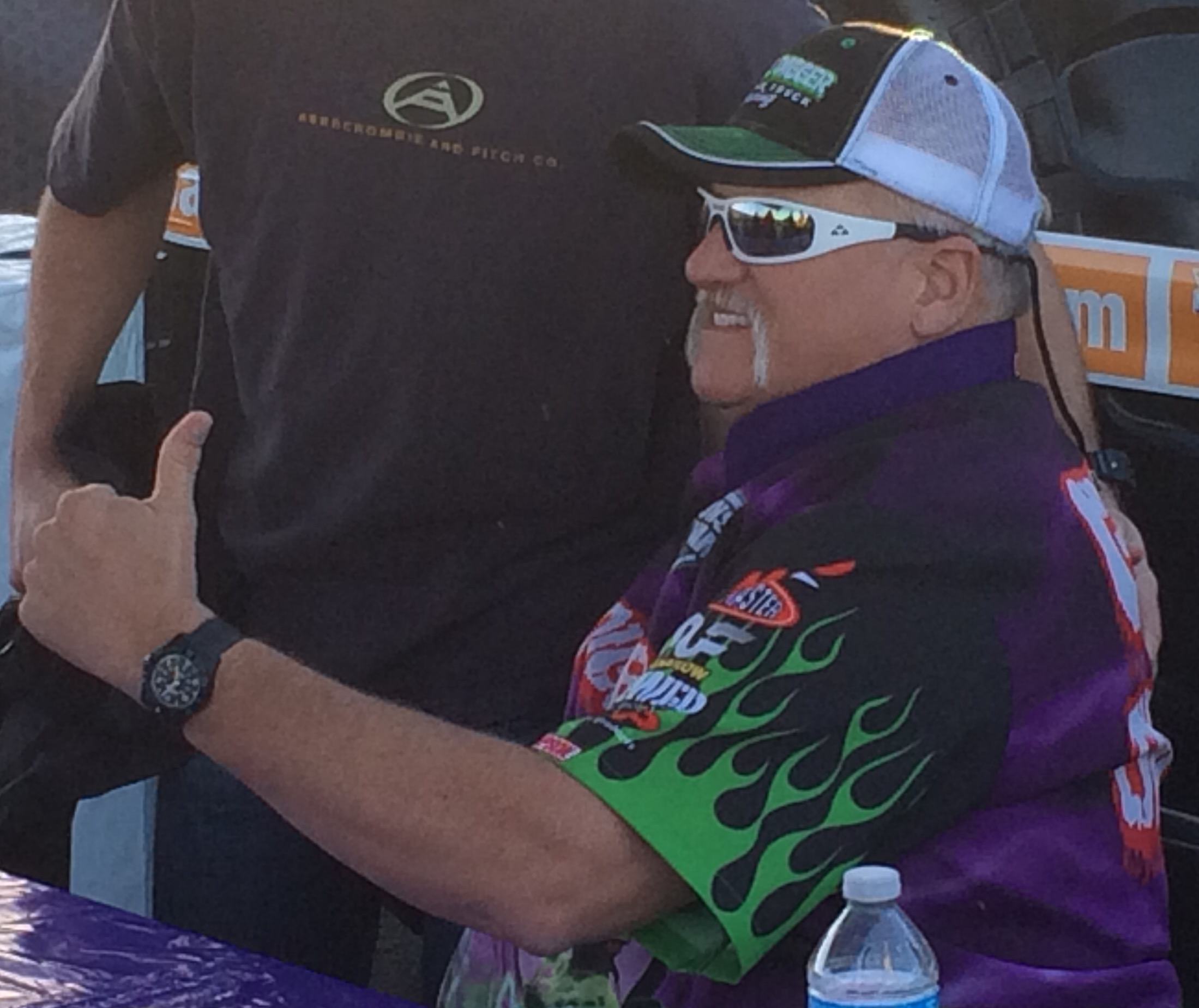 Dennis Anderson prior to a Monster Jam show at O.oo Coliseum in 2016